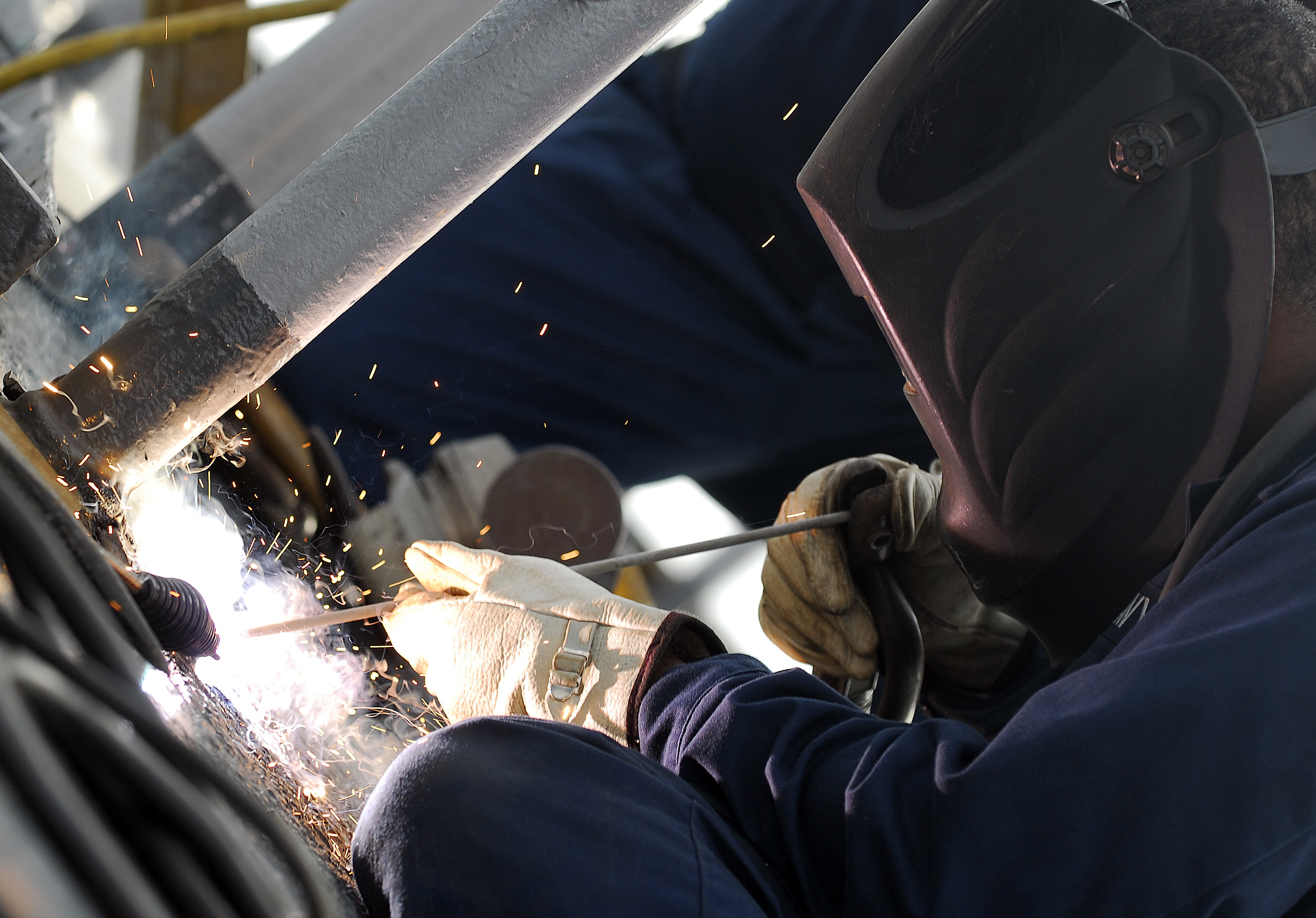 SUBIC BAY, Philippines (Oct. 21, 2009) Hull Technician Fireman Adrine M. Thomas assigned to the amphibious dock landing ship USS Harpers Ferry (LSD 49), uses a Shielded-Metal Arc Welding (SMAW) technique to bond a brace for a handrail during the Amphibious Landing Exercise (PHIBLEX) 2009. PHIBLEX is designed to improve interoperability, increase readiness and develop professional relationships between the U.S. military and the Armed Forces of the Philippines. (U.S. Navy photo by Mass Communication Specialist 2nd Class Joshua J. Wahl/Released)